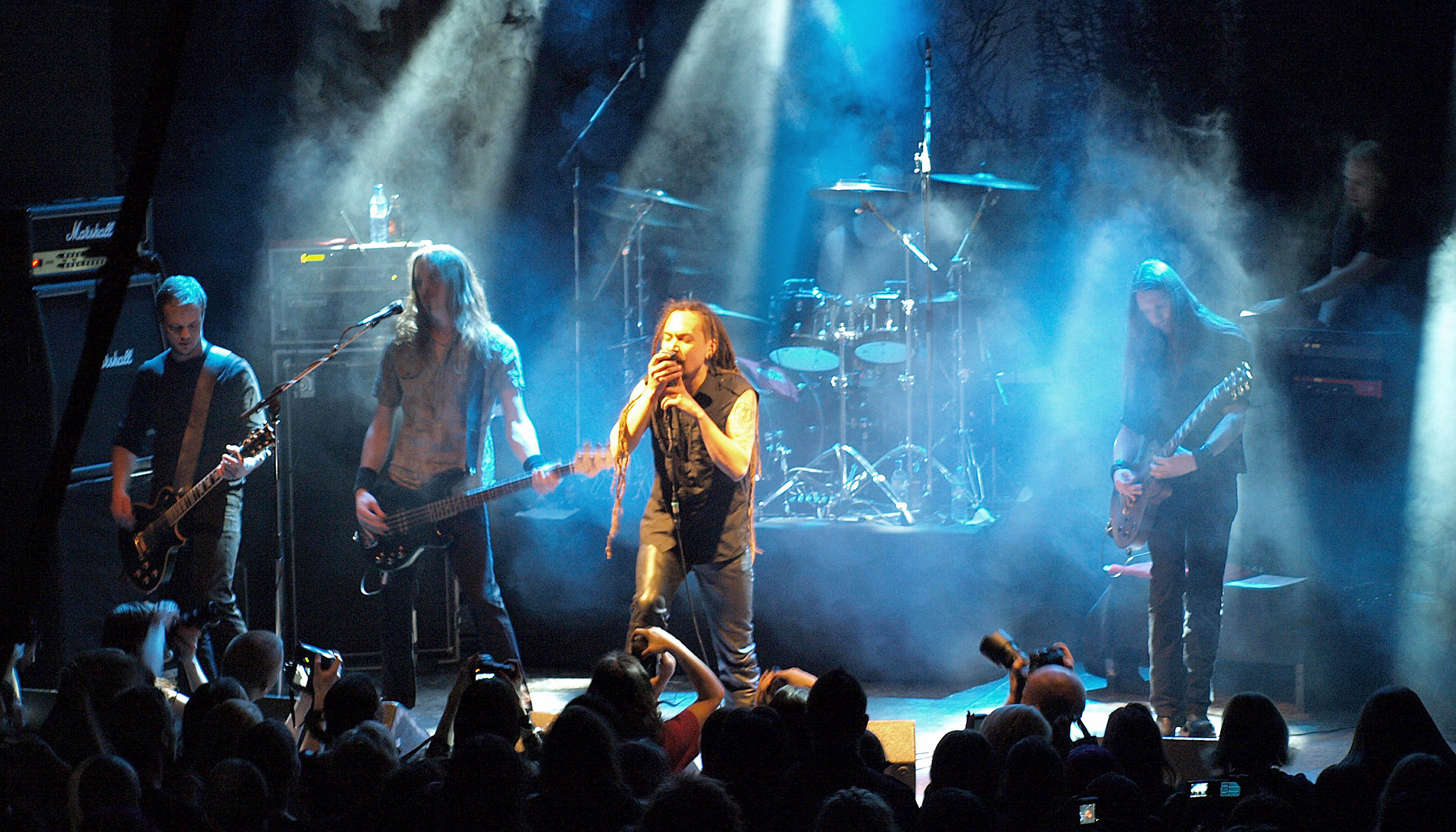 Finnish metal band Amorphis